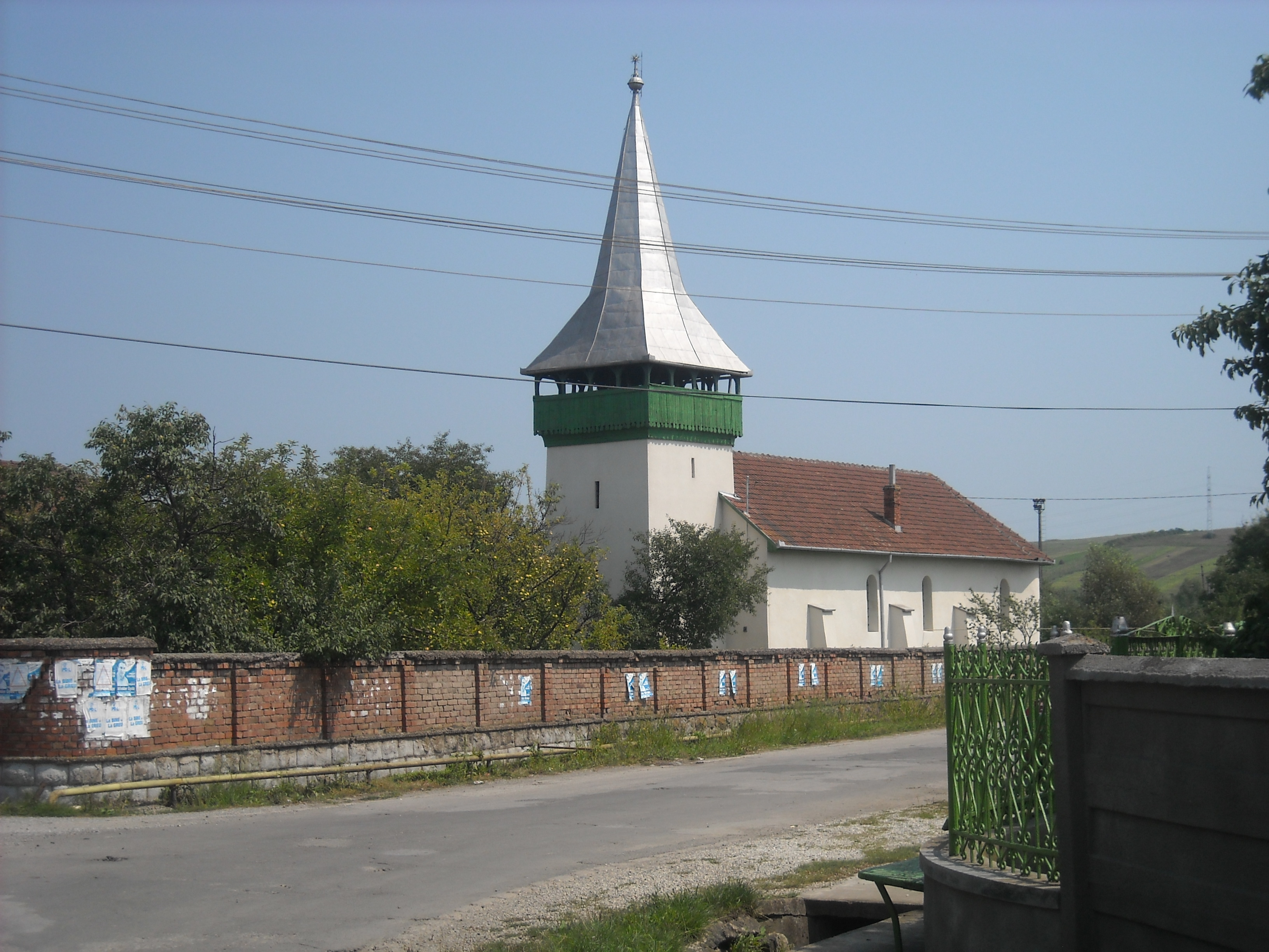 Reformed church in Peștișul Mare (Alpestes) village, Hunedoara County, Romania